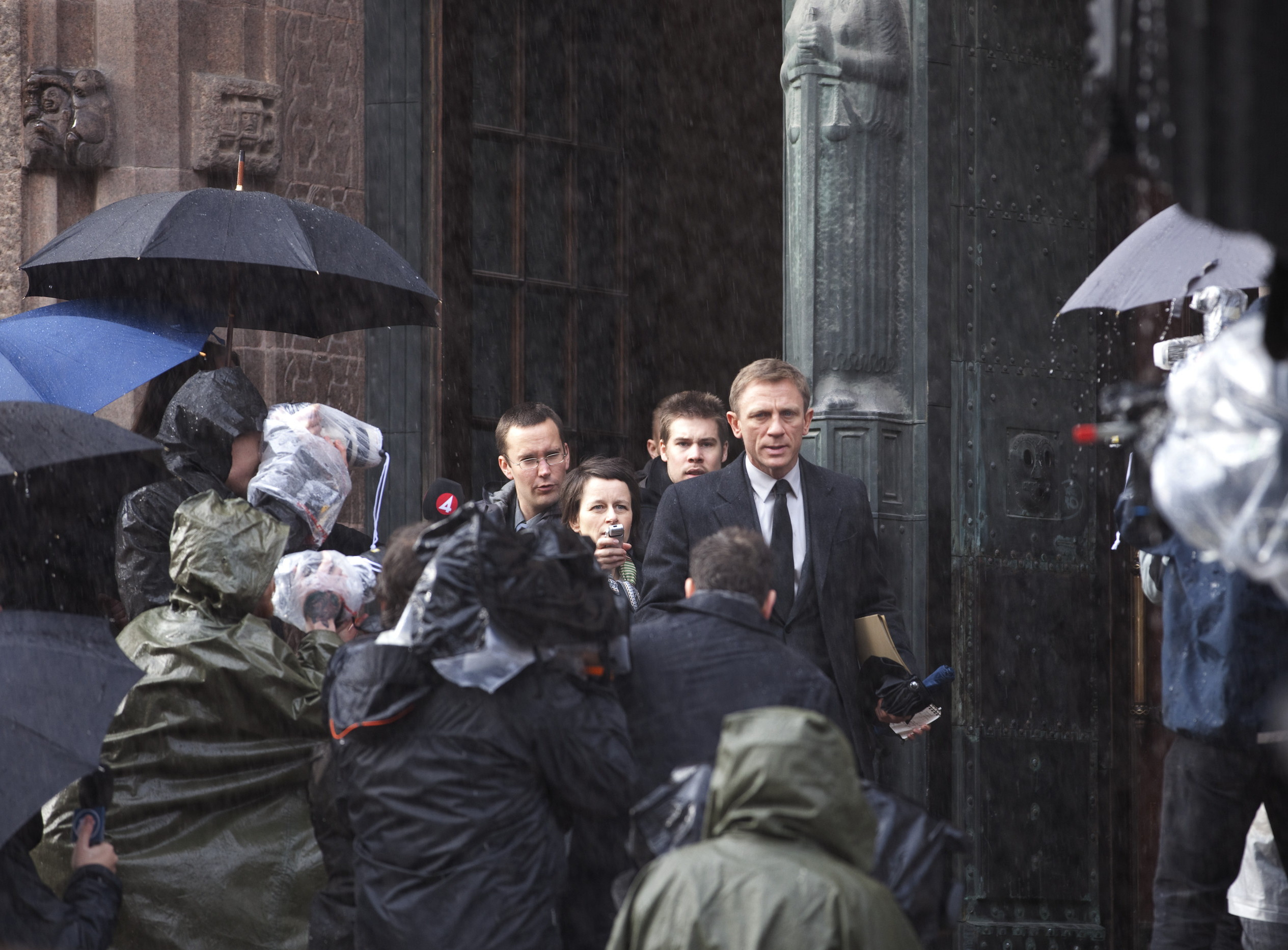 Scene from The Girl with the Dragon Tattoo recorded in the "rain" at the Rådhustrappan in Stockholm, 2011 Columbia Tristar Marketing Group. Inc.